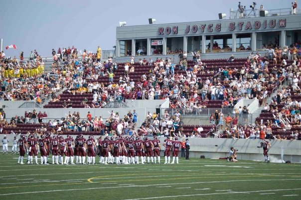 Welcome Week Football Game, McMaster University. September 2009.